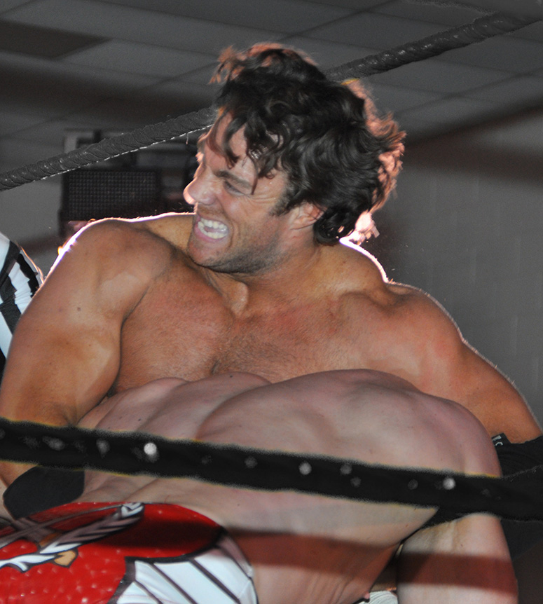 Photo I took of Slate Randall on February 7th, 2014 in Crystal River, Florida.